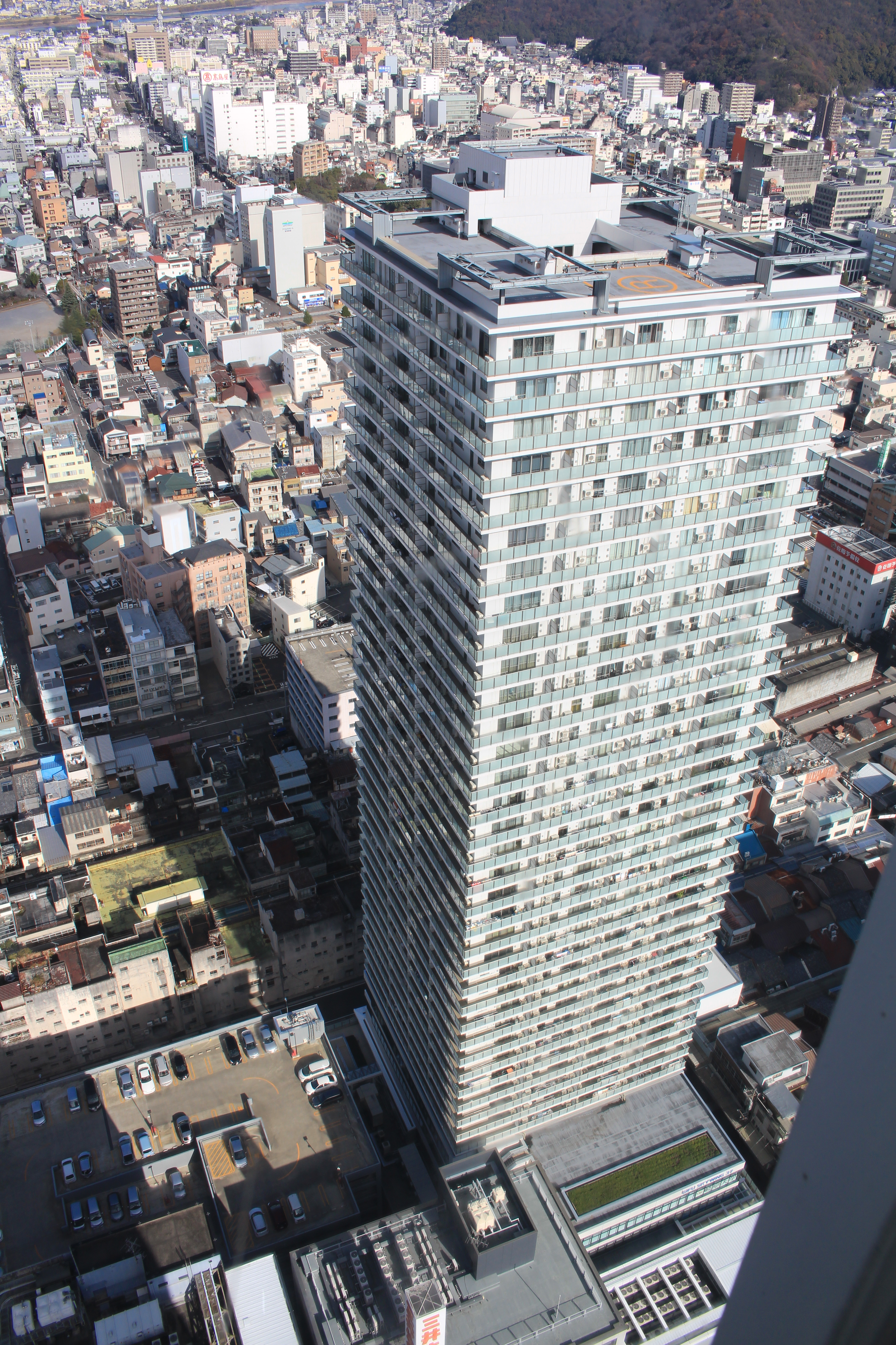 Gifu Sky Wing 37 seen from Gifu City Tower 43 in Gifu city, Gifu prefecture, Japan.